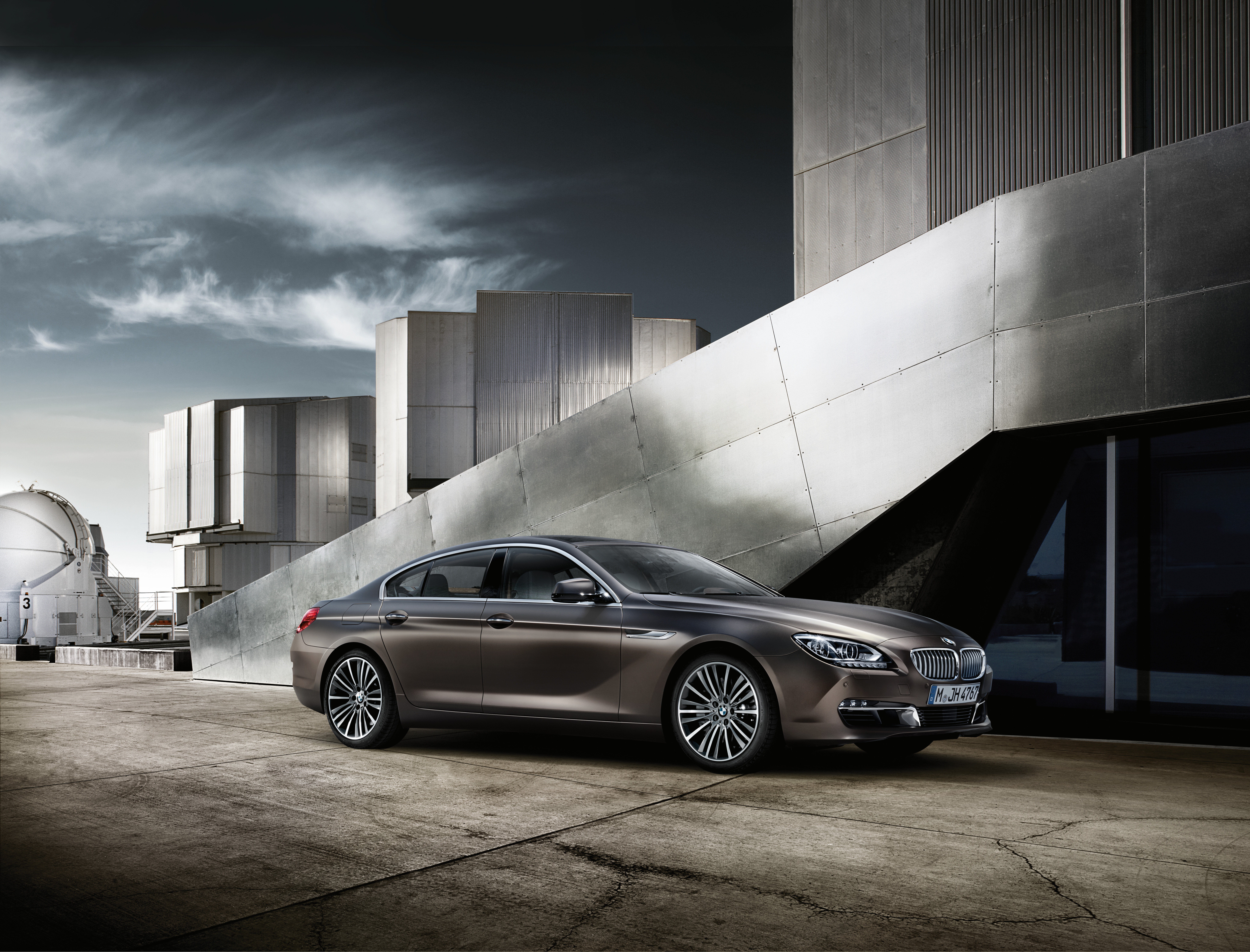 The iconic Bavarian car-maker BMW chose ESO’s Paranal Observatory, home of the Very Large Telescope (VLT), for the global campaign featuring the brand’s latest high-end model, the 6 Series Gran Coupé.